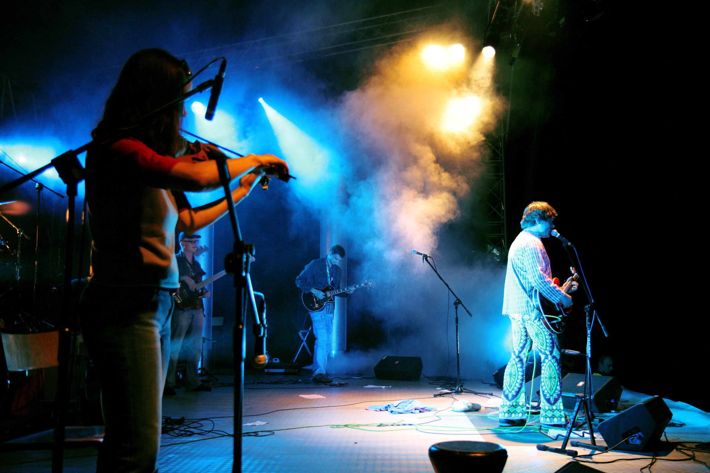 WZ-Orkiestra band at Basovišča-2008 festival in Gródek, Poland. 18.07.2008